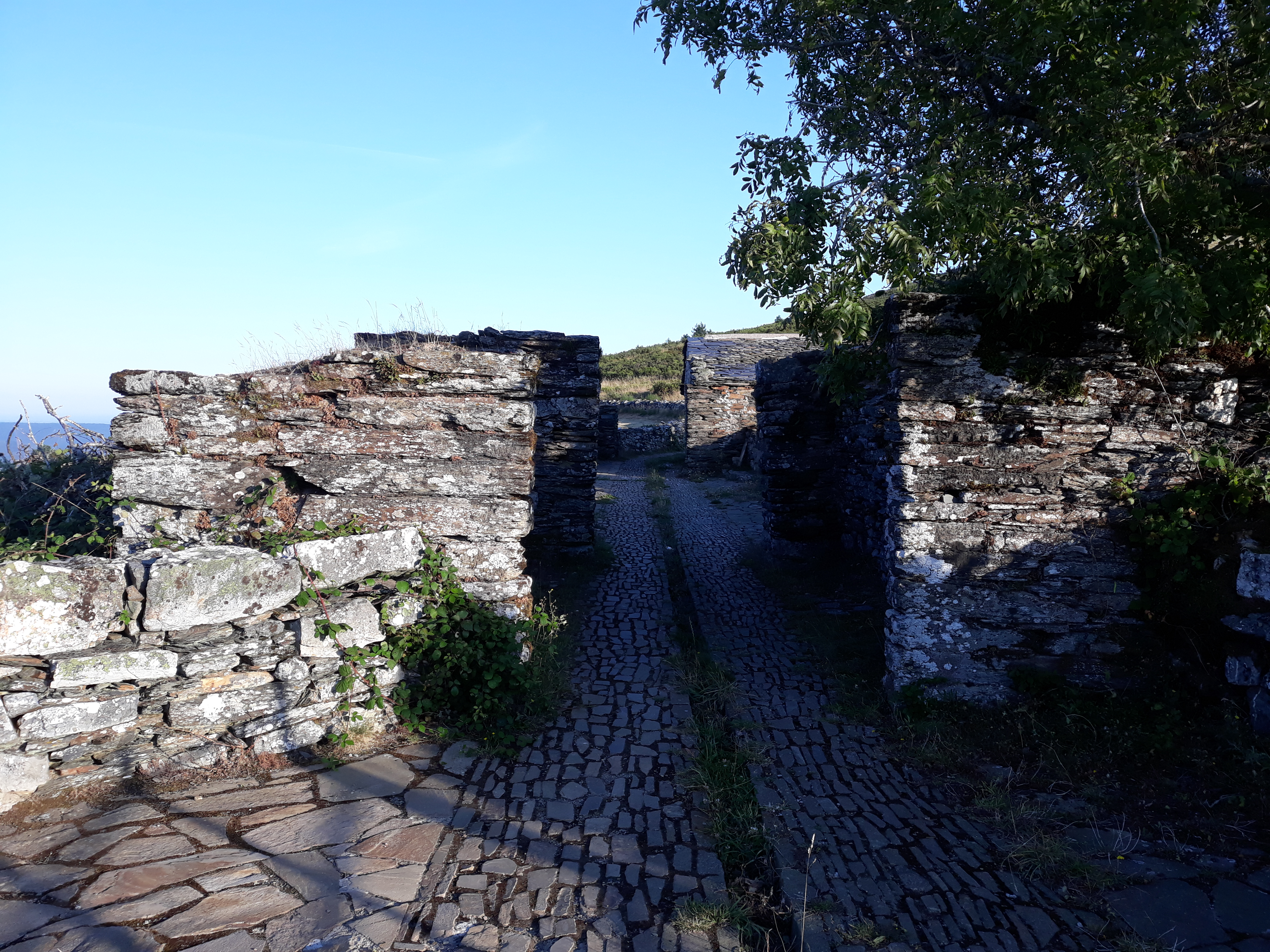 Ruins of the Royal Hospital of Saint James of Montouto. Primitive Way of Saint James. Montouto, Padrón, A Fonsagrada, Lugo province, Galicia, Spain.